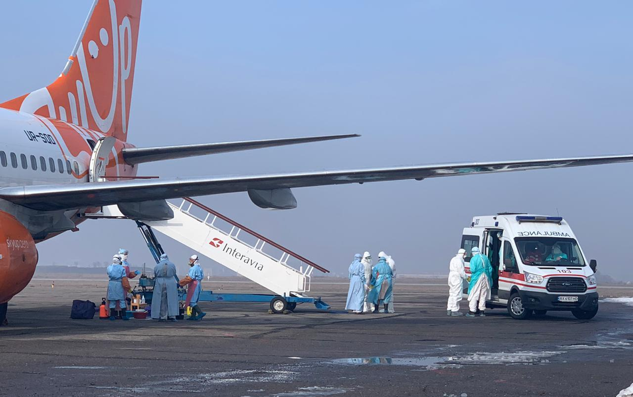 At the Kharkiv International Airport, border guards provided border clearance for 94 people arriving by special flight from China.